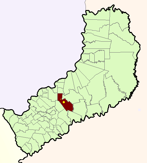 A map of Campo Grande's municipio in Misiones province, Argentina. The big point is Campo Grande town, the little one is Primero de Mayo town.